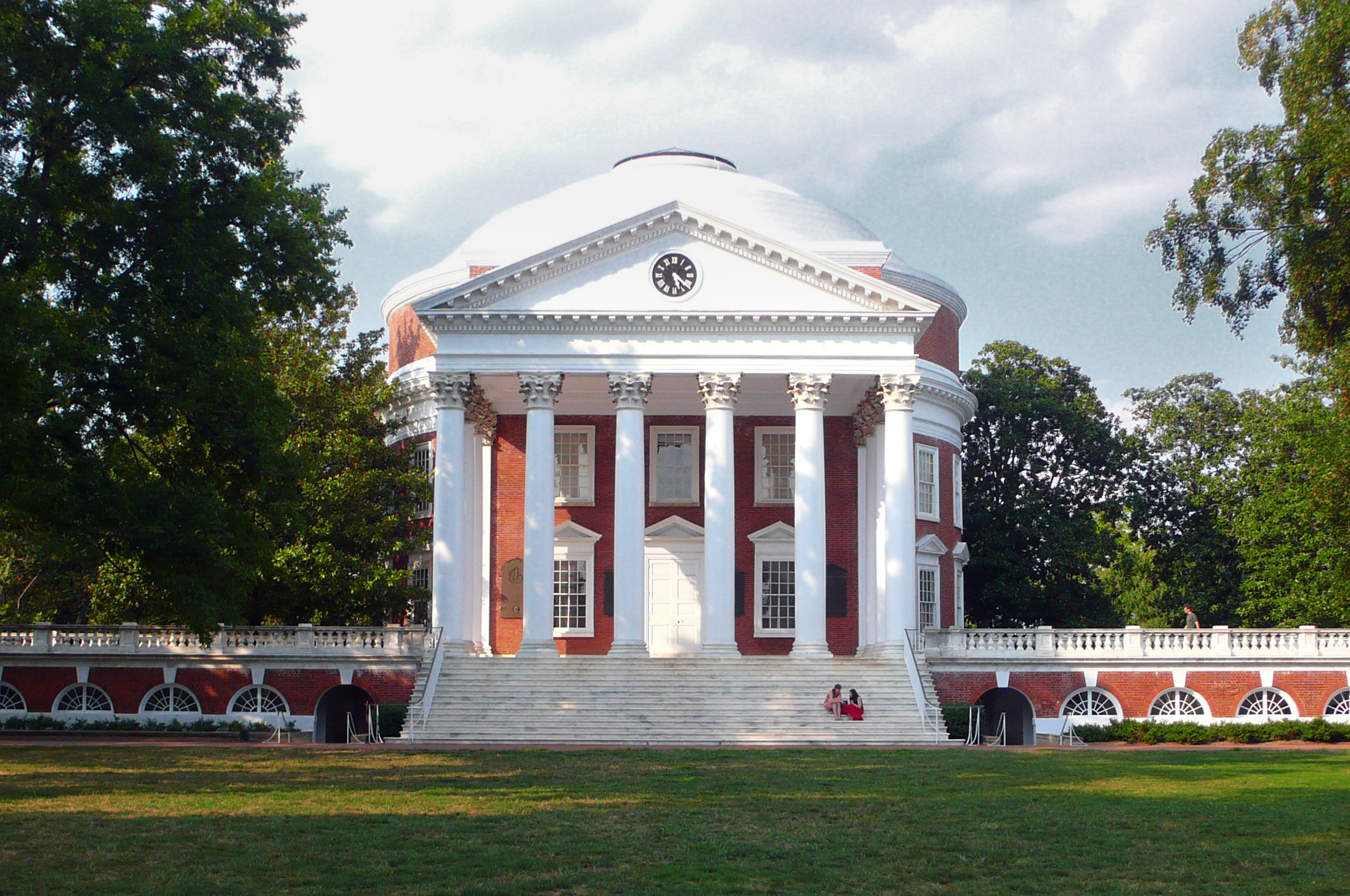 The Rotunda, the central historic structure on the campus of The University of Virginia